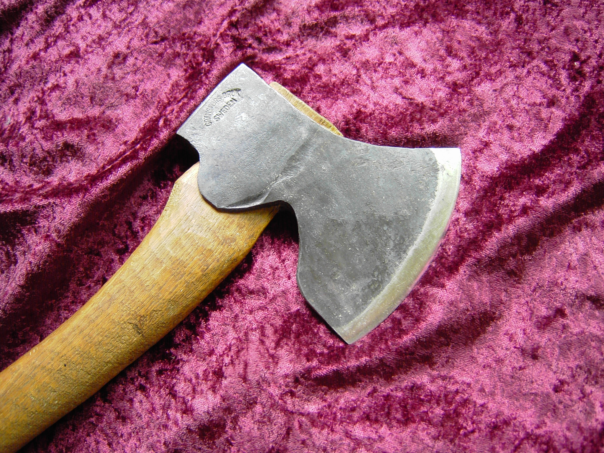 This is my most favorite tool. Most of the time, I know very well how to use it.